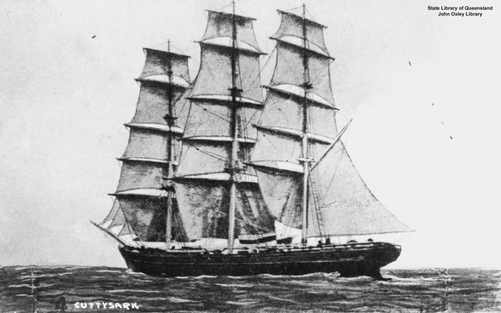 The clipper Cutty Sark in full sails. Built 1869.